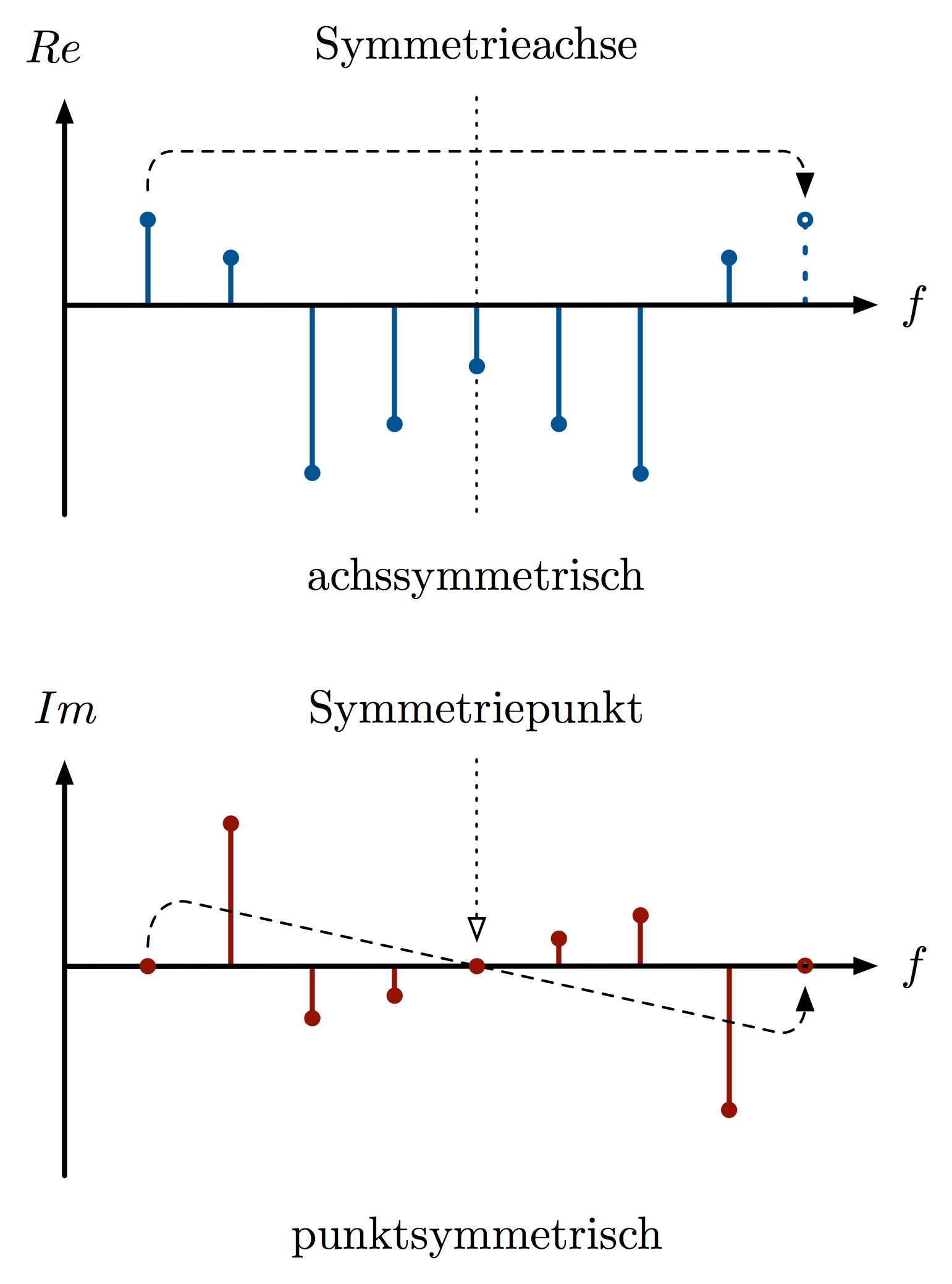 8-Point DFT on real input